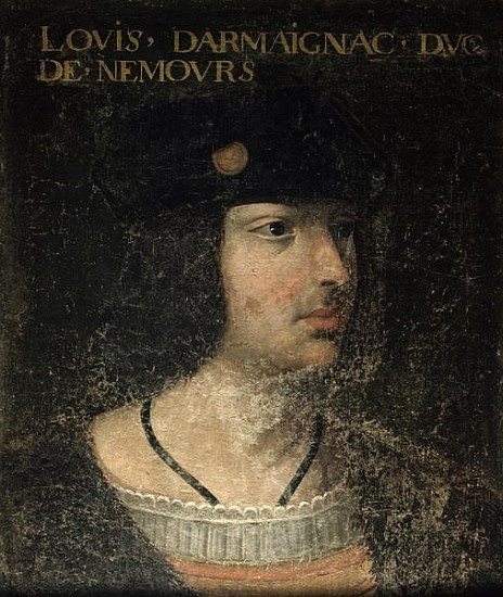 Portrait of Louis d'Armagnac, Duke of Nemours (1472-1503)